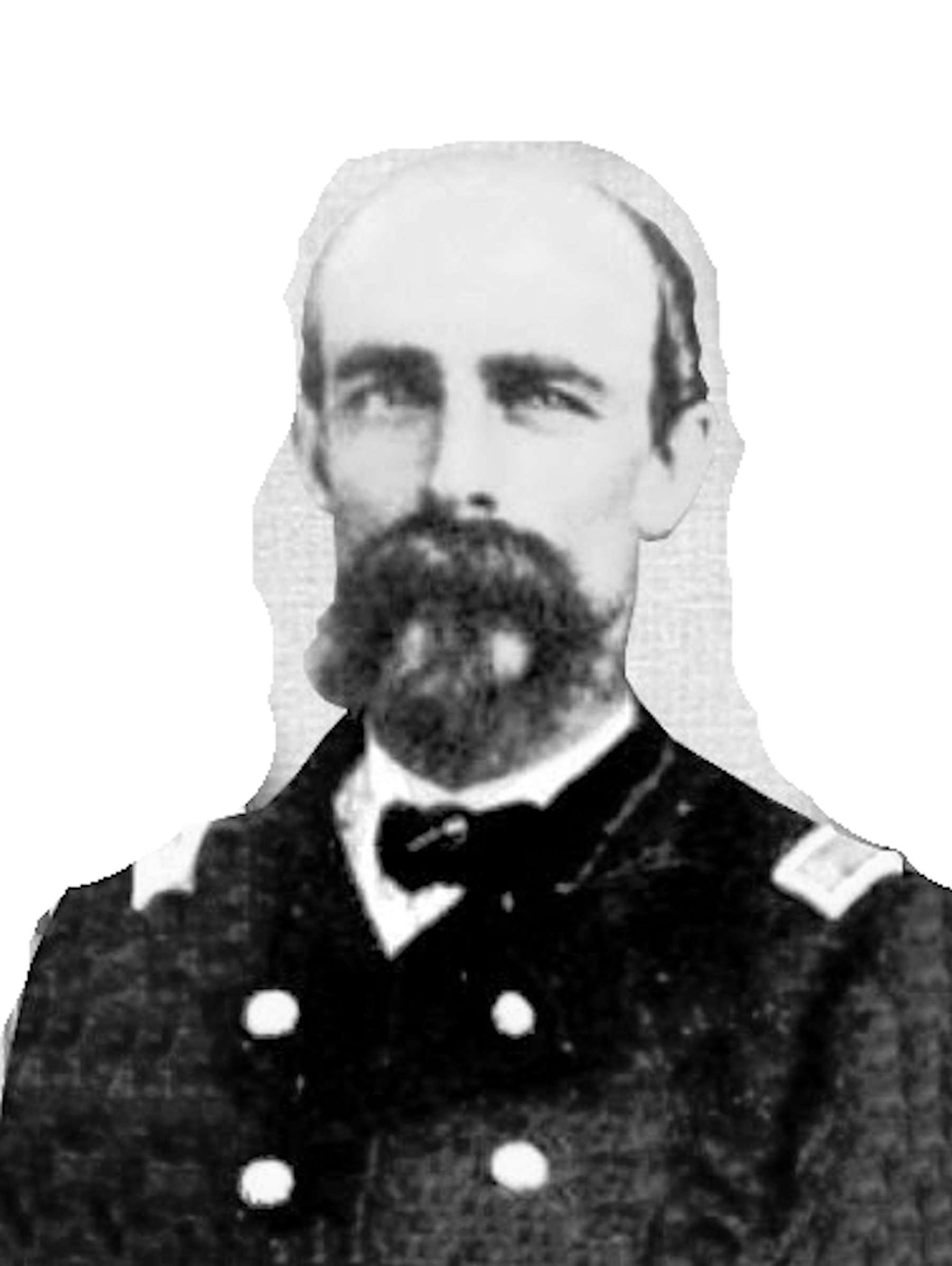 Medal of Honor winner Andrew Barclay Spurling 1865